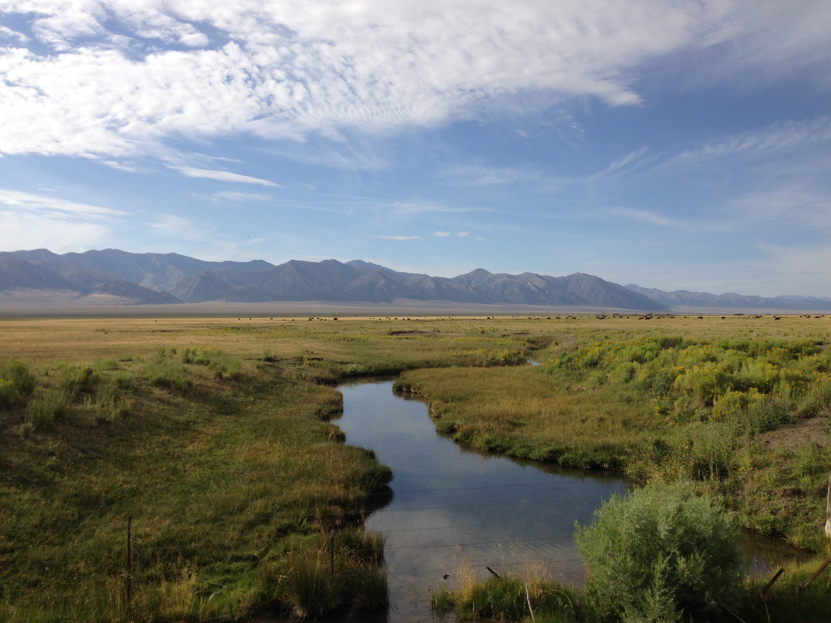 View south up the Reese River from Nevada State Route 722 (Carroll Summit Road) in Lander County, Nevada